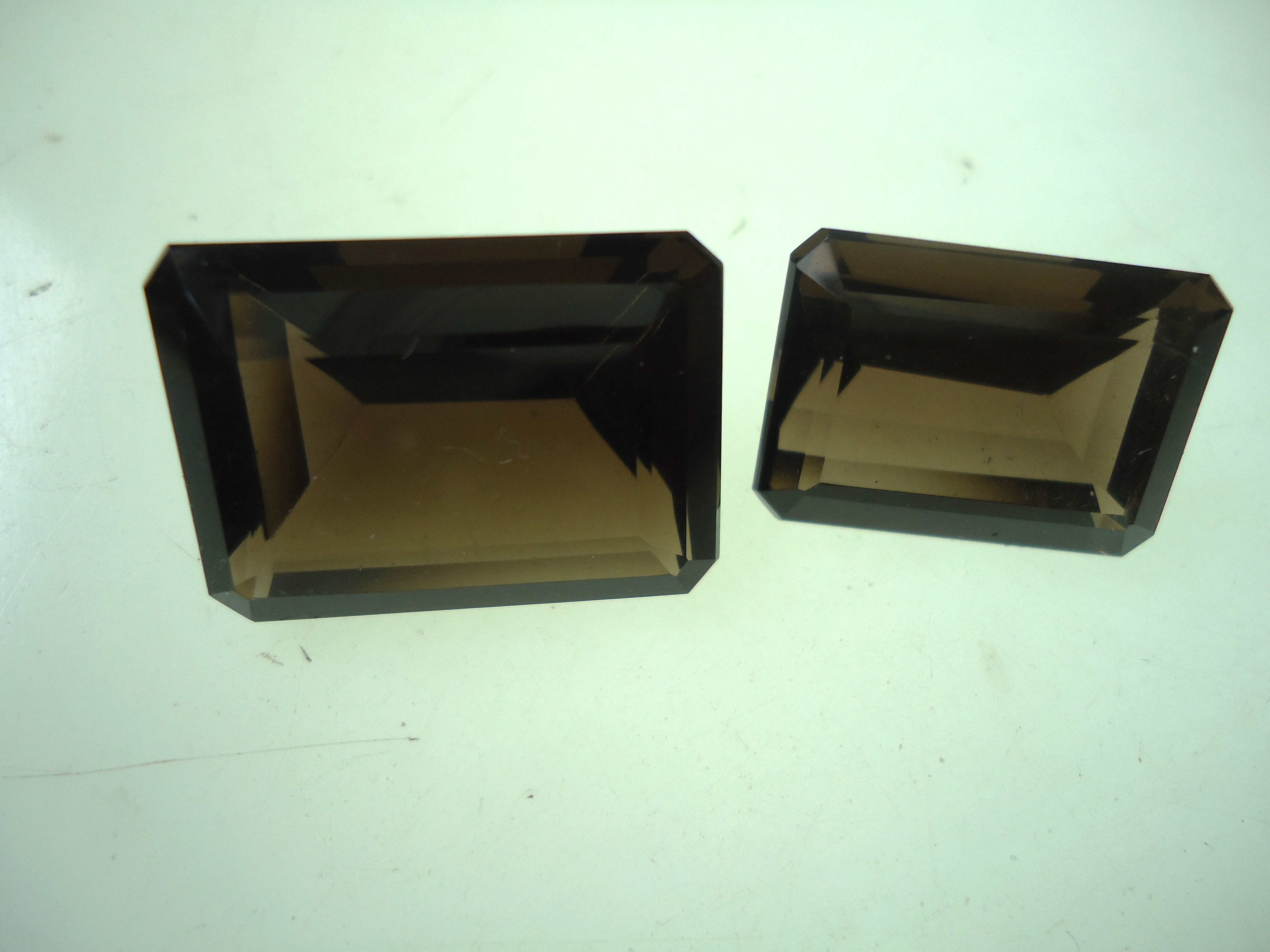 Morion smoky quartz. Photo : Mauro Cateb, Brazilian jeweler.